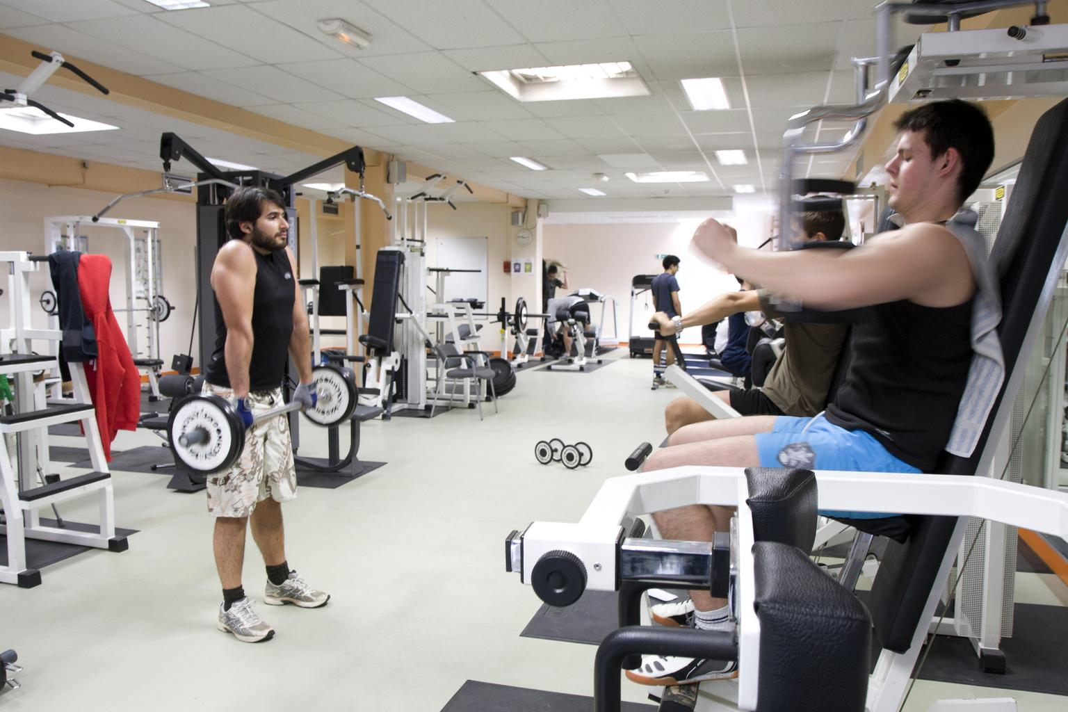 Campus of the École polytechnique (France), weights room.